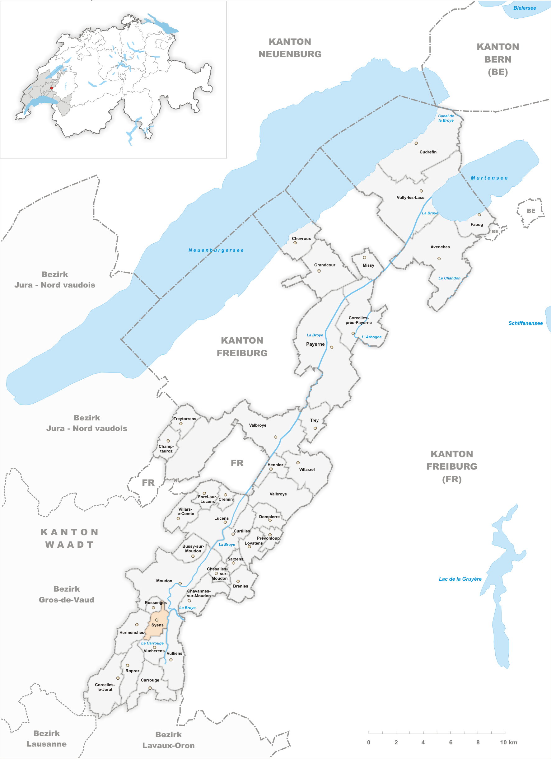 Municipality Syens